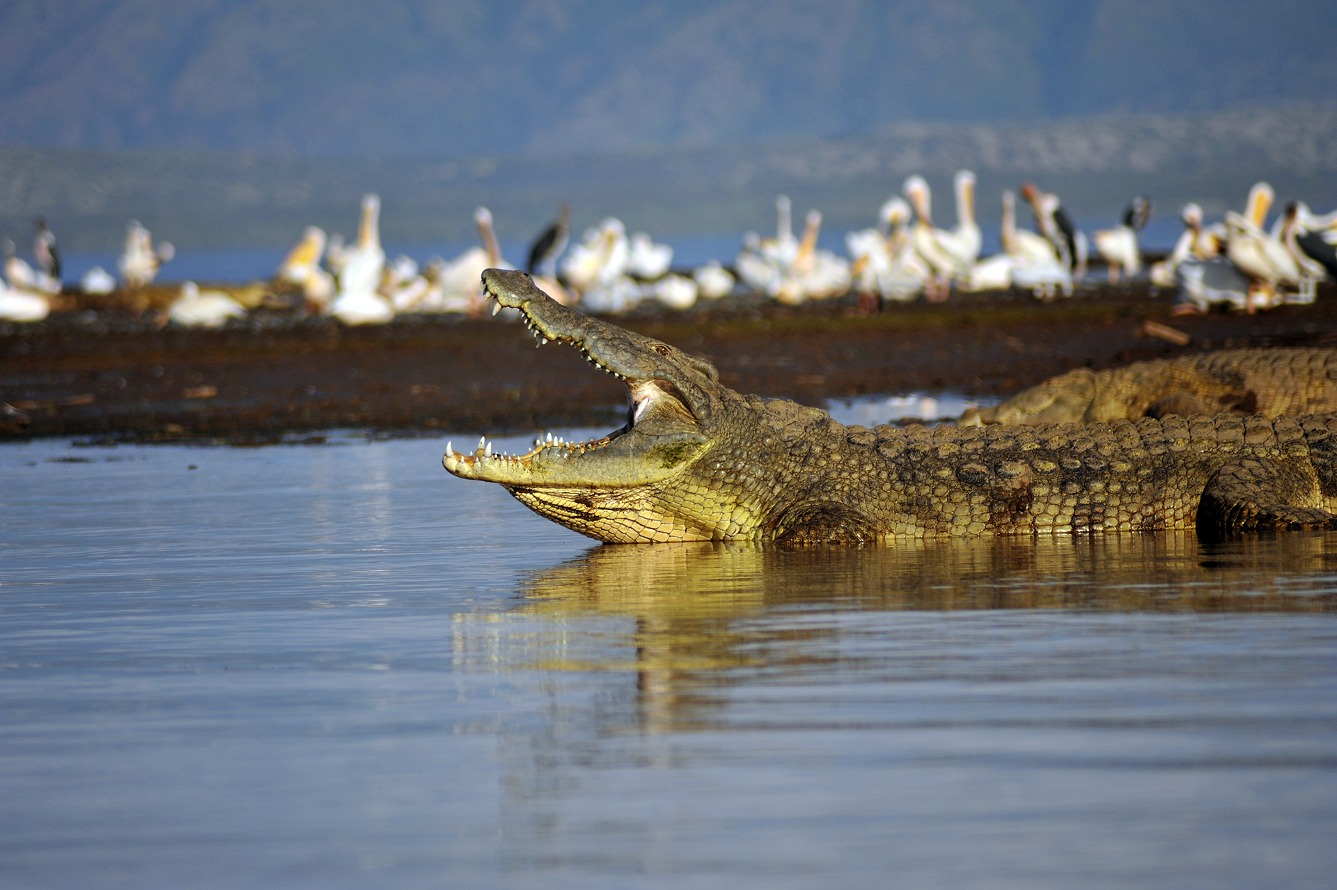 People and places in the Omo Valley, Ethiopia.